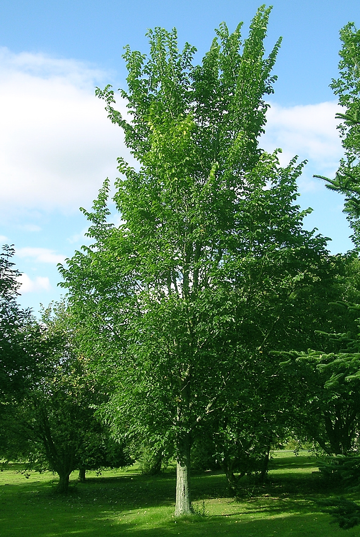 Photo taken by author at the Hillier Arboretum, August 2007